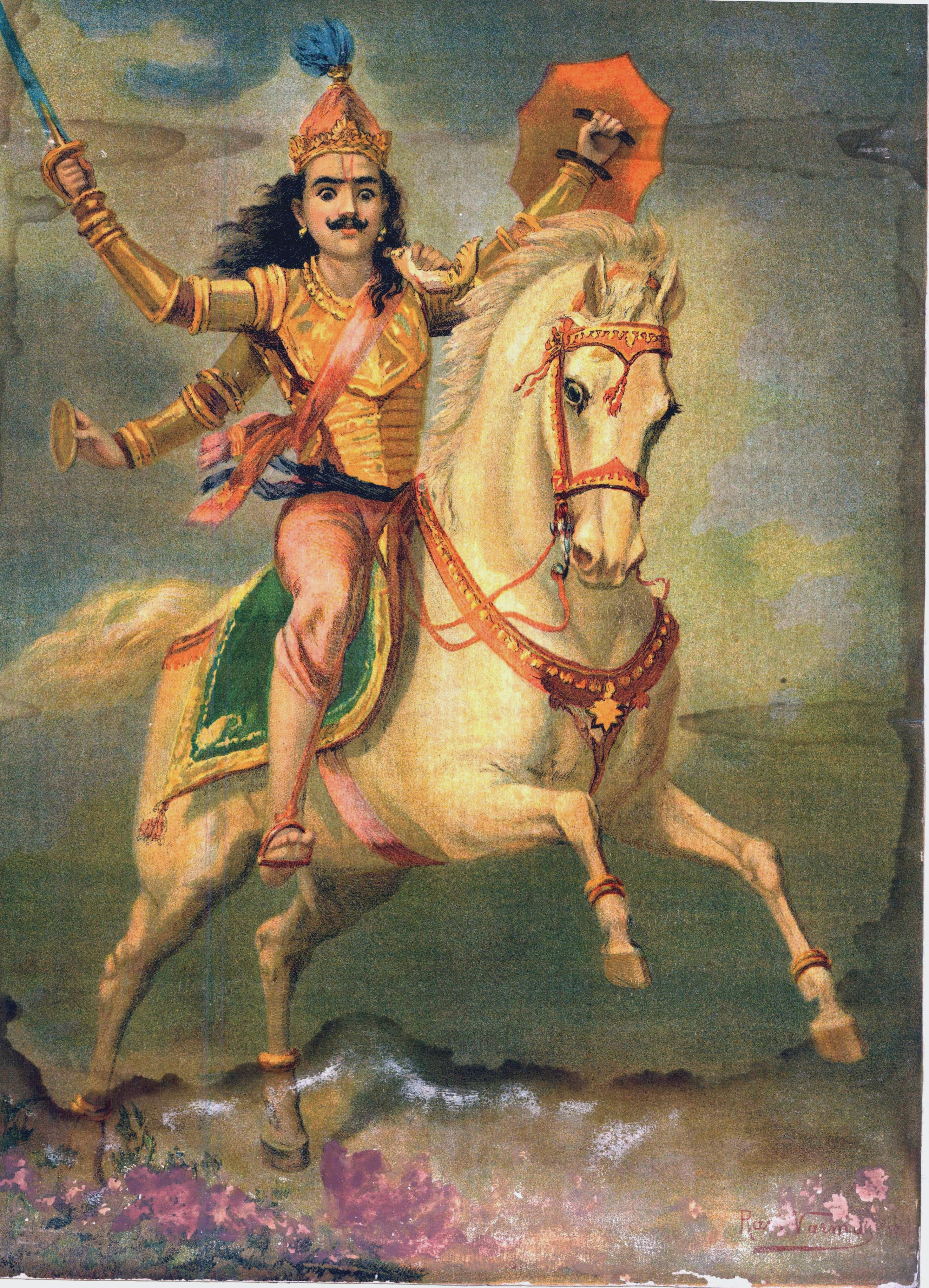 Kalki Avatar (Image courtesy of Late Sri G. K. Haldipurkar and Aniruddha Haldipurkar, Karwar.)